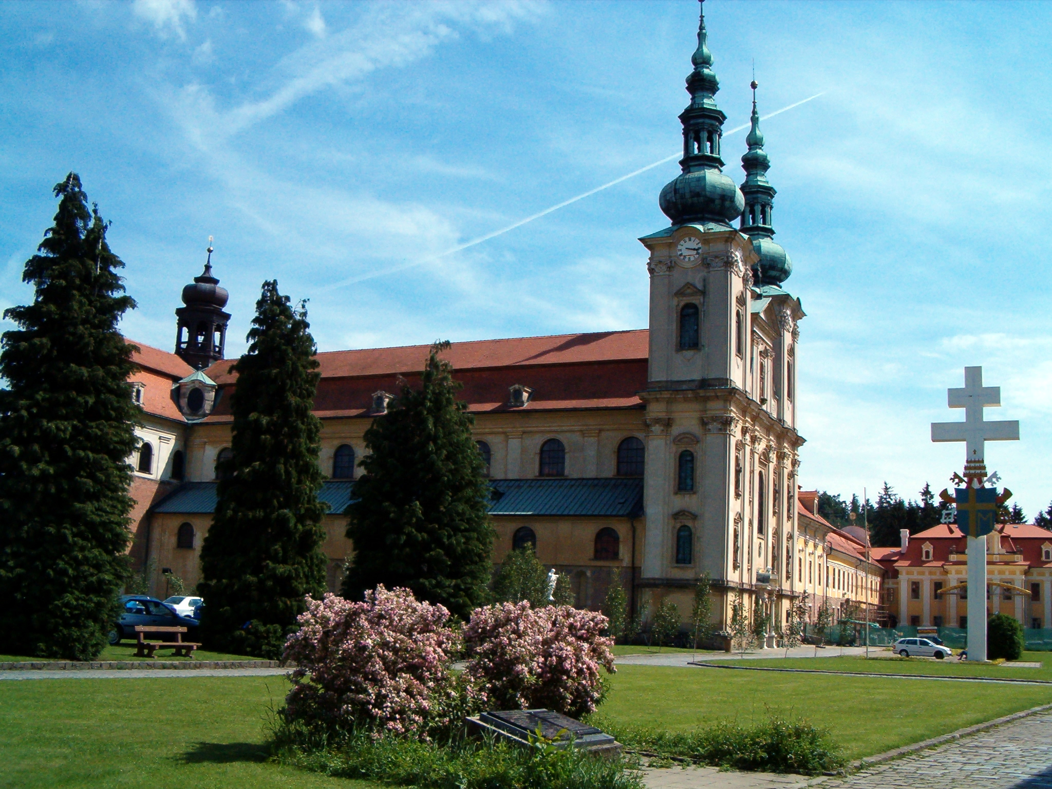 The Basilica of Assumption of Mary and St. Cyrillus and Methodius in Velehrad